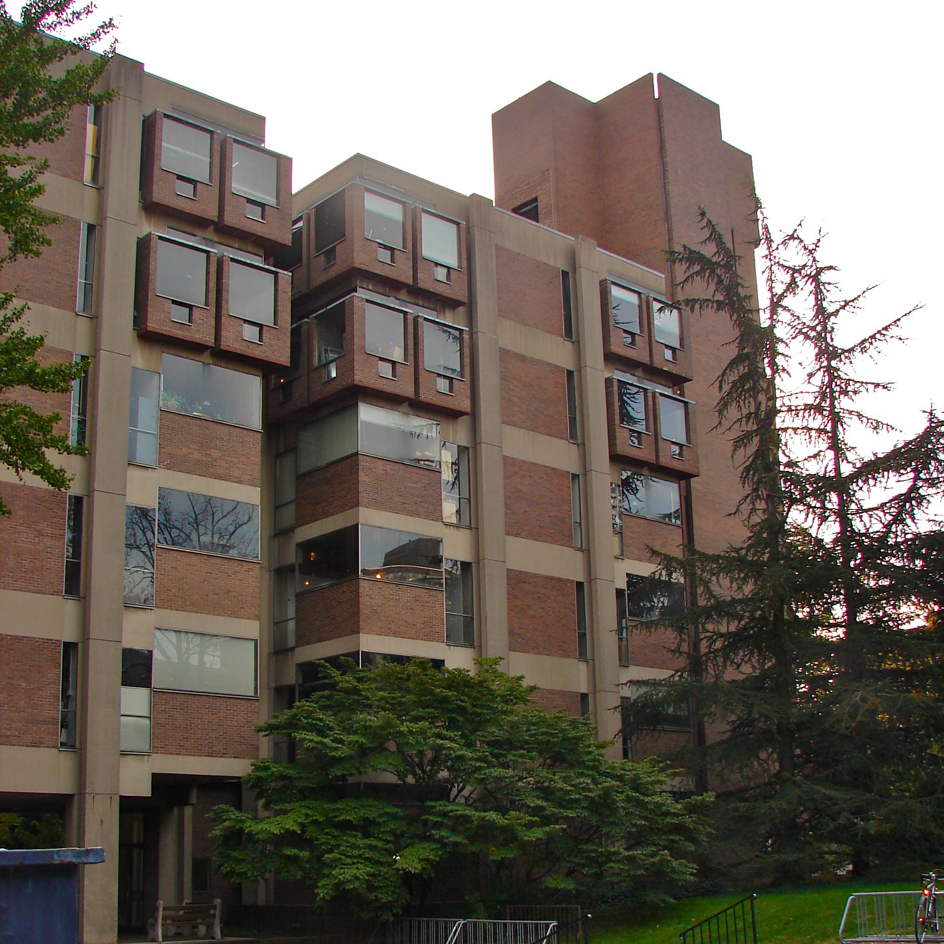 Goddard Research Labs, attached to Richards labs, viewed from the NORTH (whoops!), at the U Pennsylvania campus in Philadelphia. A National Historic Landmark since 2010.